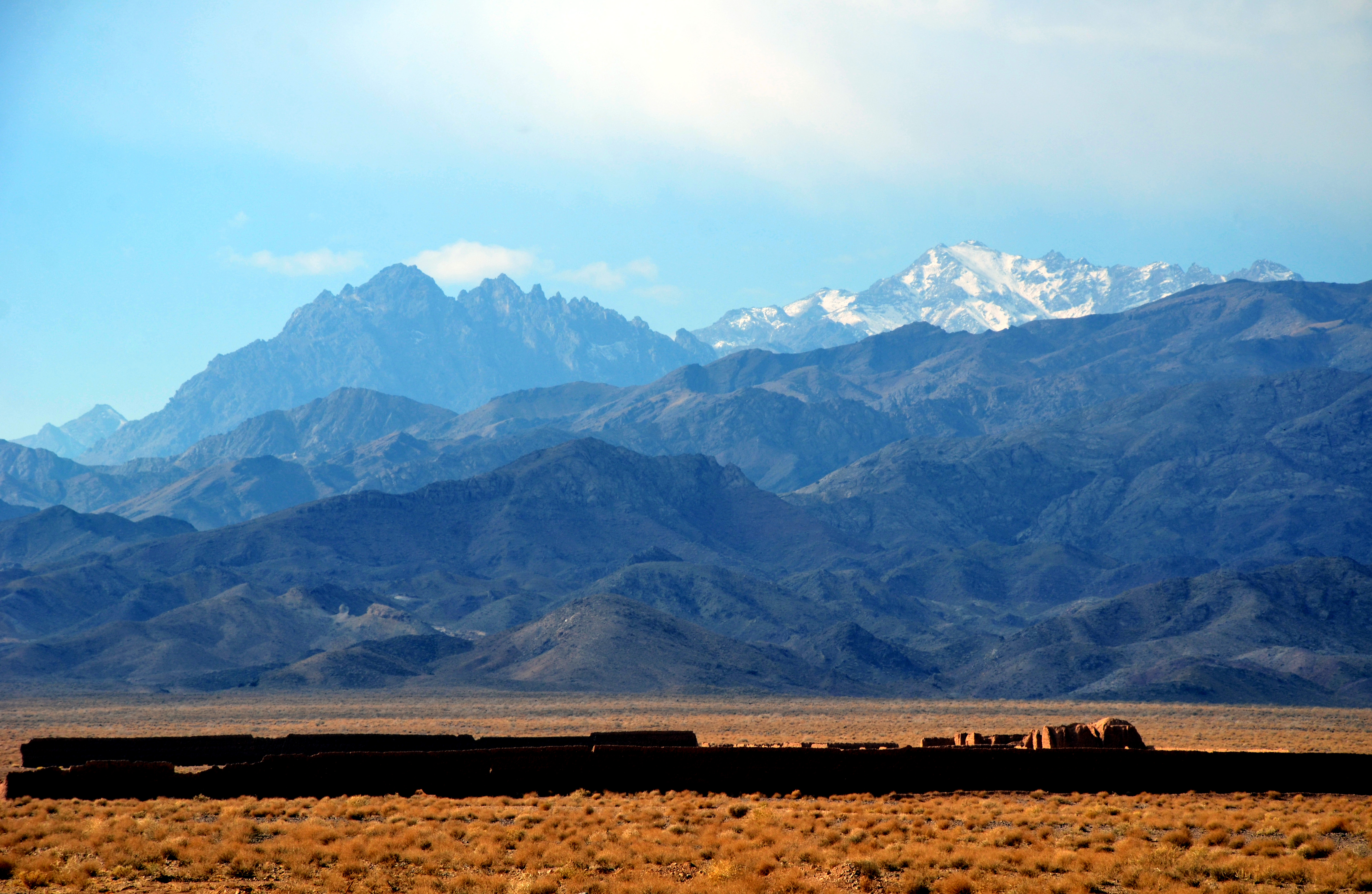 Karkas Mountain in Esfahan province, Iran